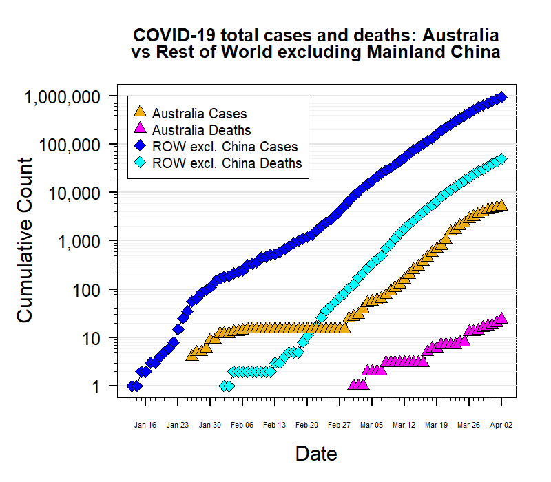 COVID-19 Total cases and deaths Australia vs rest of world excluding Mainland China